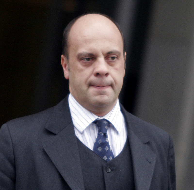 MP Michael Hartmann (SPD)